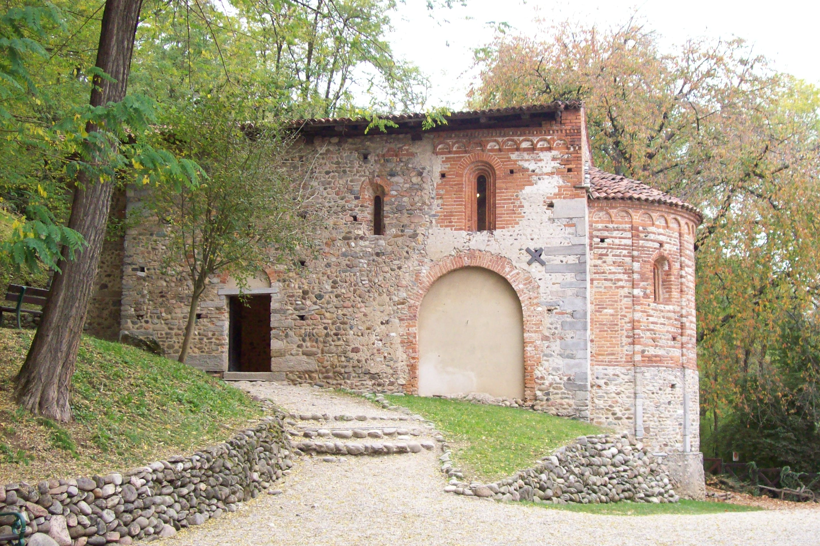 Church of Santa Maria di Torba, Gornate olona (Va) (Italy)